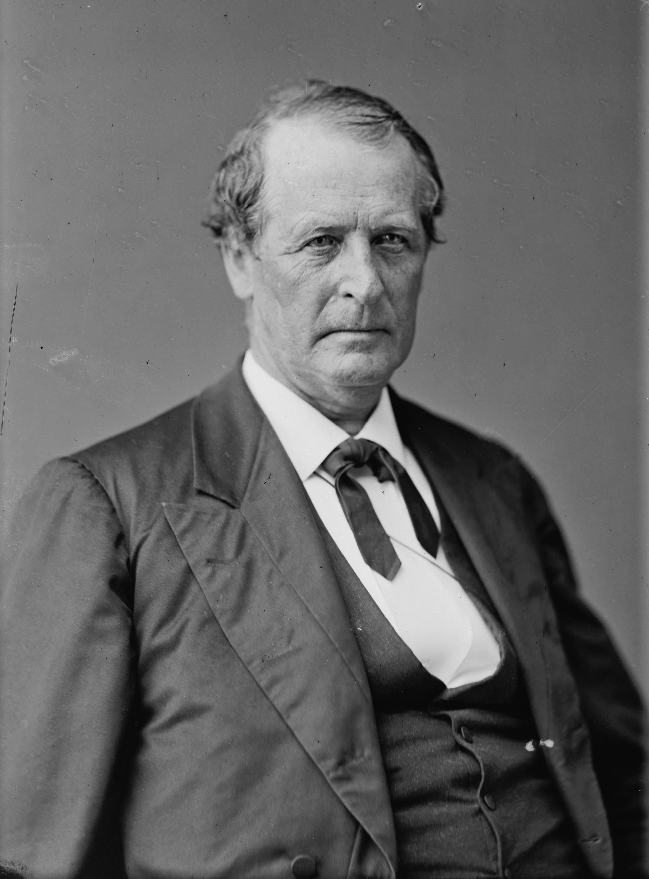 Thomas Samuel Ashe. Library of Congress description: "Ashe, Hon. Thos. Samuel of N.C."